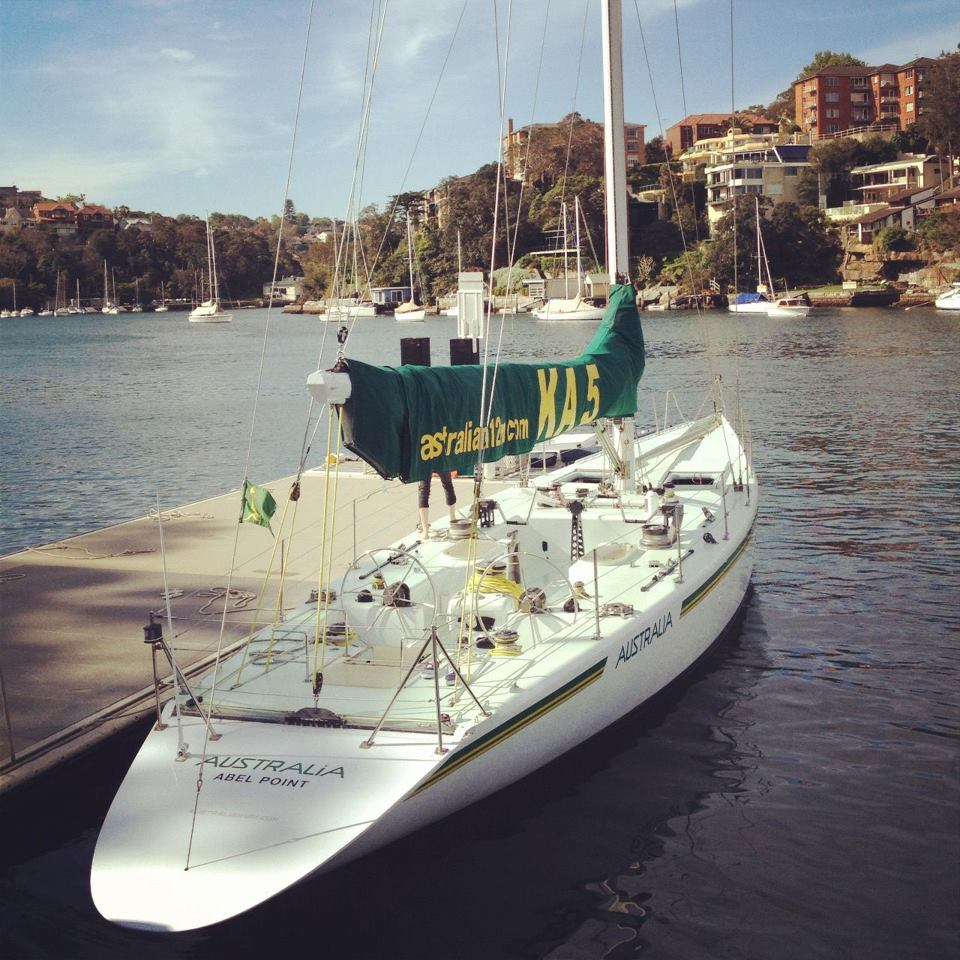 A photo of the 12 metre yacht 'Australia' designed by Ben Lexcen for Alan Bond as a racing yacht for the 1977 and 1980 America's Cup Other information Permission was given to me by the manager of the Australian Twelves Association Inc (Frank Lagudi)to copy this from the organisations Facebook page for use on Wikipedia